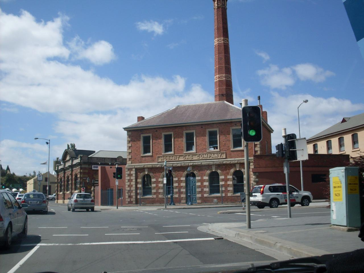 Former Gas Works, Hobart